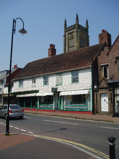 Old houses and shops at East Grinstead, West Sussex, England. The top end of East Grinstead has not changed much for 100s of years. Many of the wood framed buildings still stand and the Town Church, St. Swithens dominates.